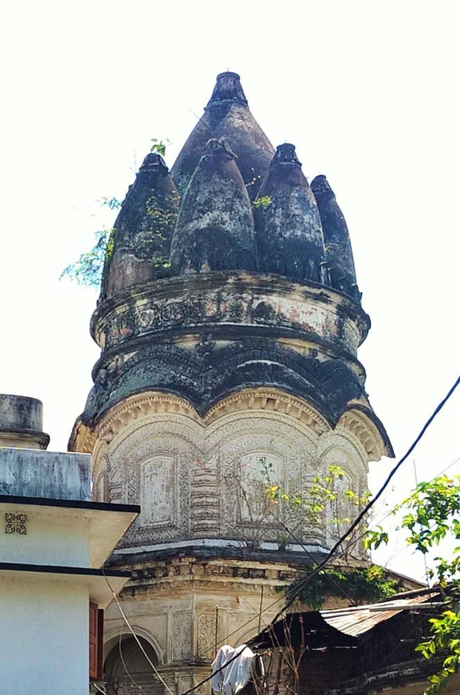 Moth Pukur Its the historical and very famous Moth Pukur. It also bear huge myth about its creation.